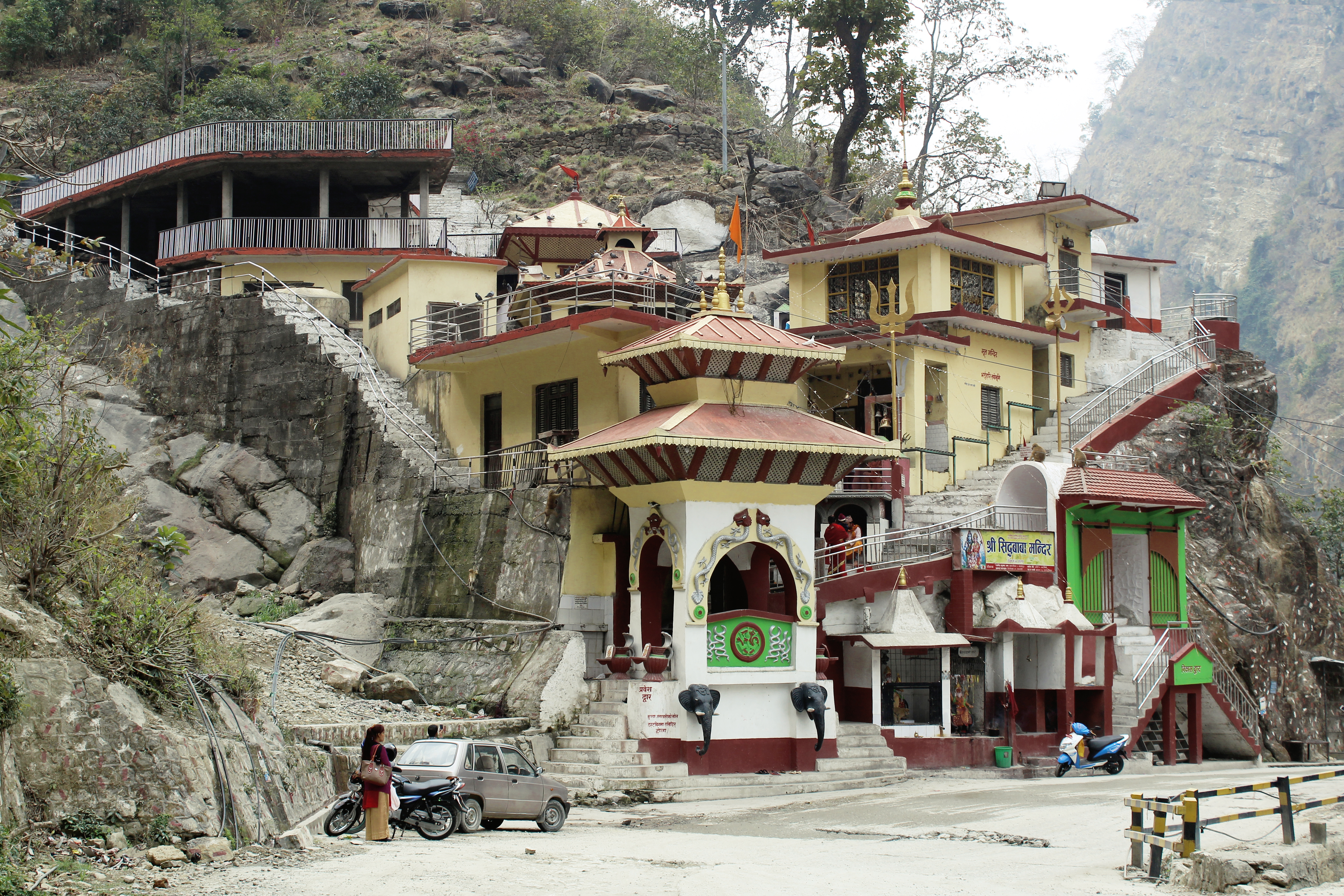 Siddha Baba Temple sits just beside the highway, Siddhartha Rajmarg, Dobhan, Palpa. It is one of the famous temple of Lord Shiva. Crowds of devotees are seen during the days of Saturday and Monday and other festivals related to god Shiva. नेपाली: दोभान, पाल्पा जिल्ला, सिद्धार्थ राजमार्गको छेवैमा अवस्थित श्री सिद्धबाबा मन्दिर । शनिबार, सोमबार तथा भग्वान शिवजिसङ सम्बन्धि अन्य चाड्हरुमा हिन्दु धर्मालम्बिहरु को भिड लाग्ने यस श्री सिद्धबाबा मन्दिर नेपालकै प्रमुख तीर्थस्थल हो ।